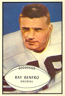 American football player Ray Renfro on a 1953 Bowman card.